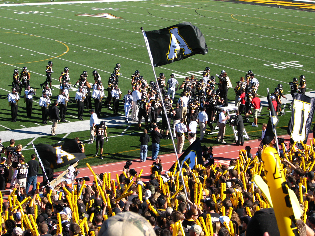 The Mountaineers of Appalachian State gathering on the sideline prior to kickoff.